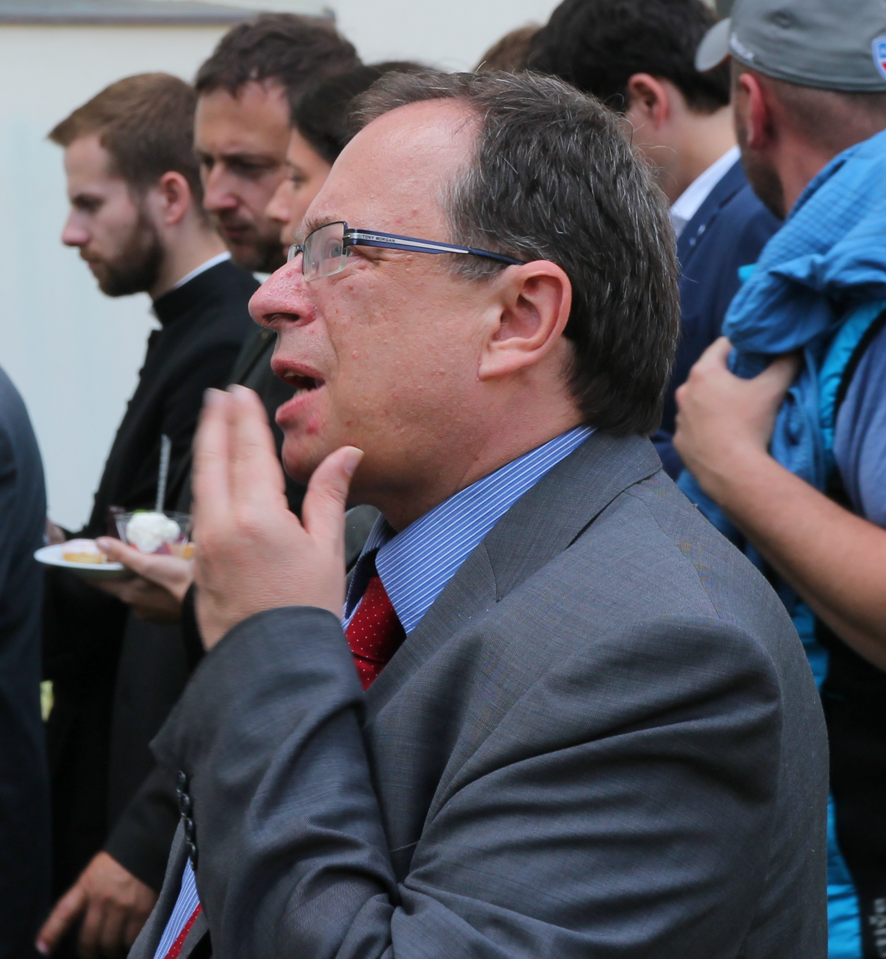 Jaroslav Šebek during the episcopal ordination of Zdenek Wasserbauer held on May 19th, 2018, Prague